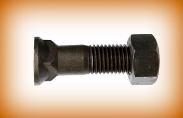 ARFISA Representaciones, Scp Tornillería Normas Din y Bajo Plano o Muestra